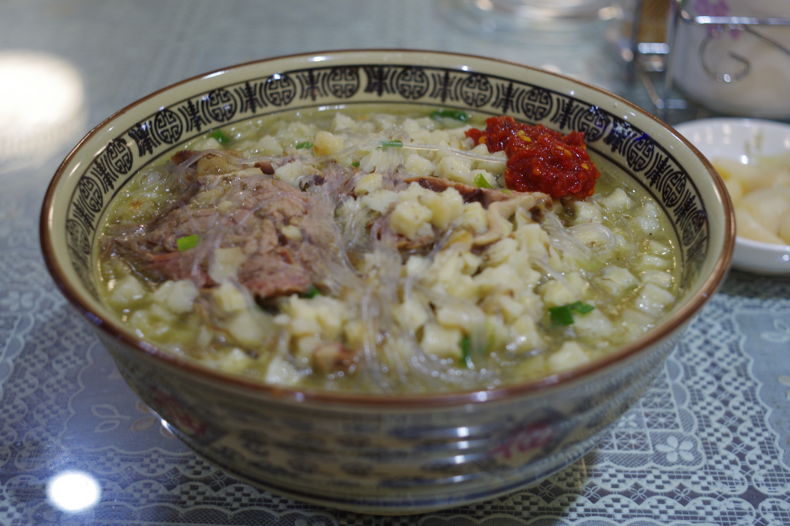 Xi'an cuisine, Yangrou Paomo